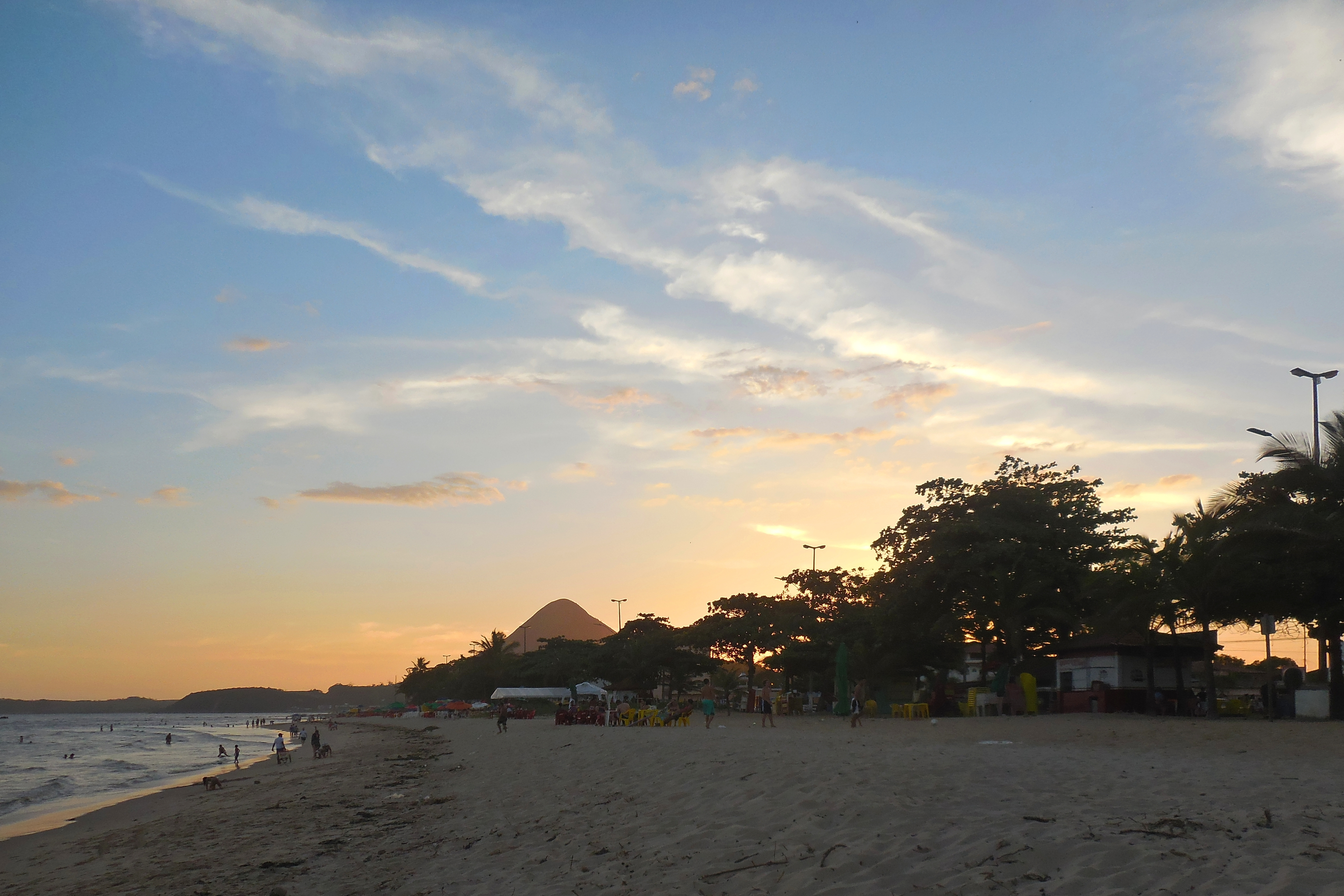 A sunset in Piúma, Espírito Santo, Brazil.